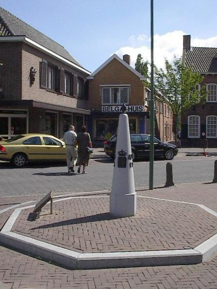 Symbolic border pillar in the center of Baarle, a village divided between Belgium and the Netherlands. The border lies several meters near this symbolic pillar, and the pillar stands in the Belgian part of the village, called Baarle-Hertog.